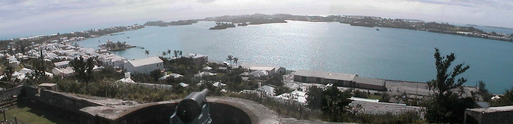 A composite image of St. George's Harbour, Bermuda, as seen from Fort George. View is southward, towards St. David's Island. St. George's Town is at the left of the photograph.